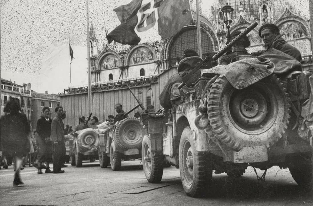 Venezia Piazza San Marco 1945 British Troops on Jeeps